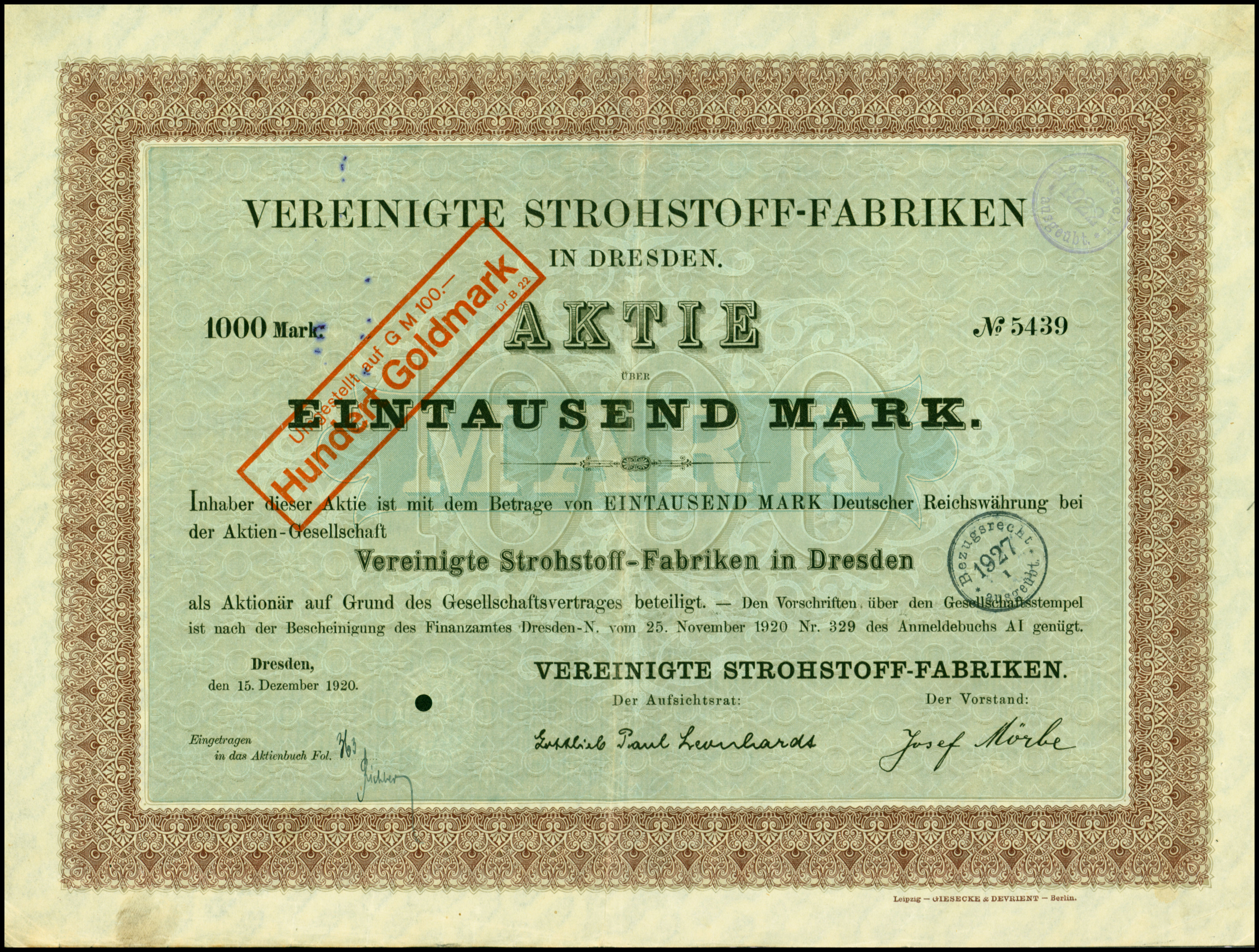 Share of the Vereinigte Strohstoff-Fabriken, issued 15. December 1920